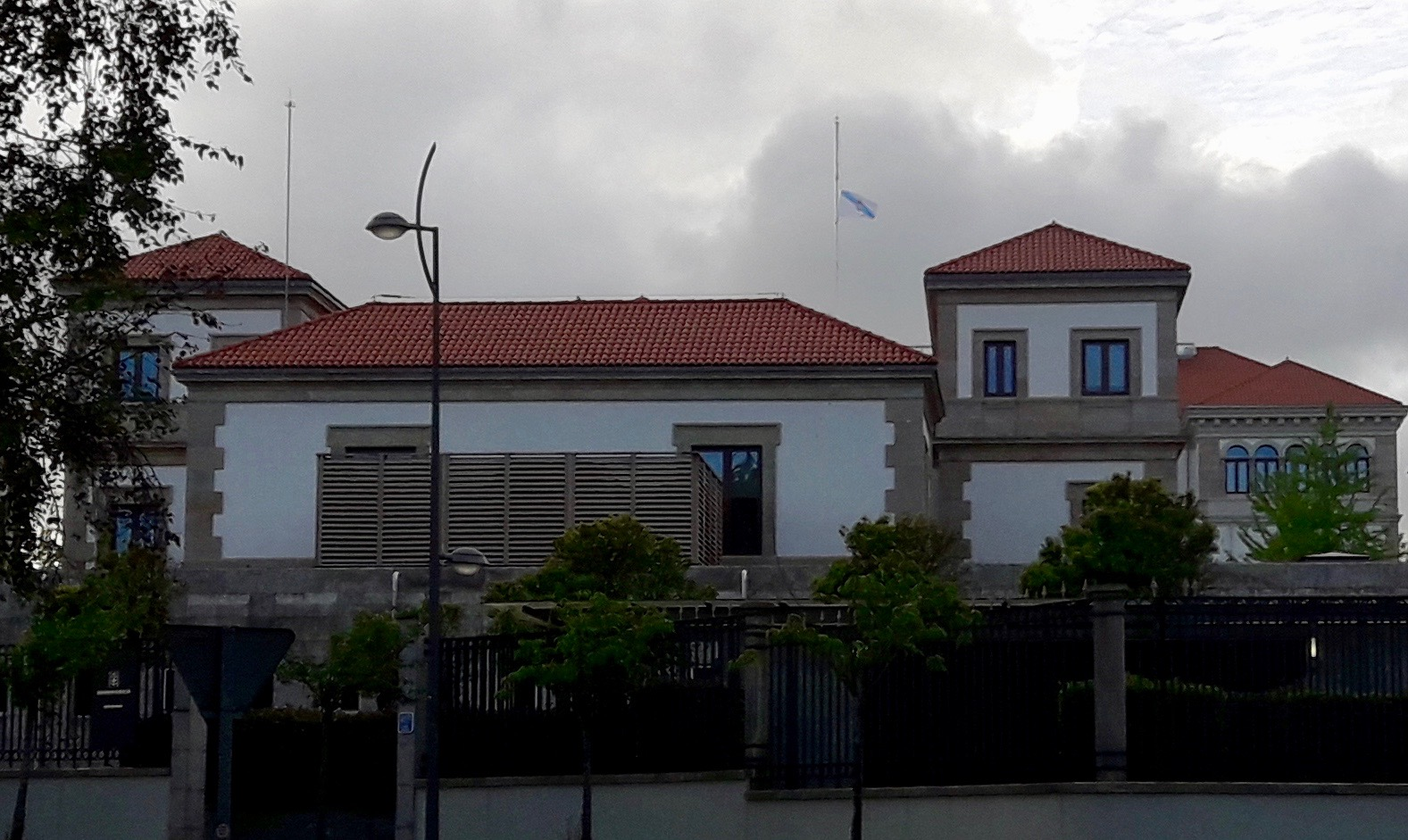 Galician Flag flying at half-mast